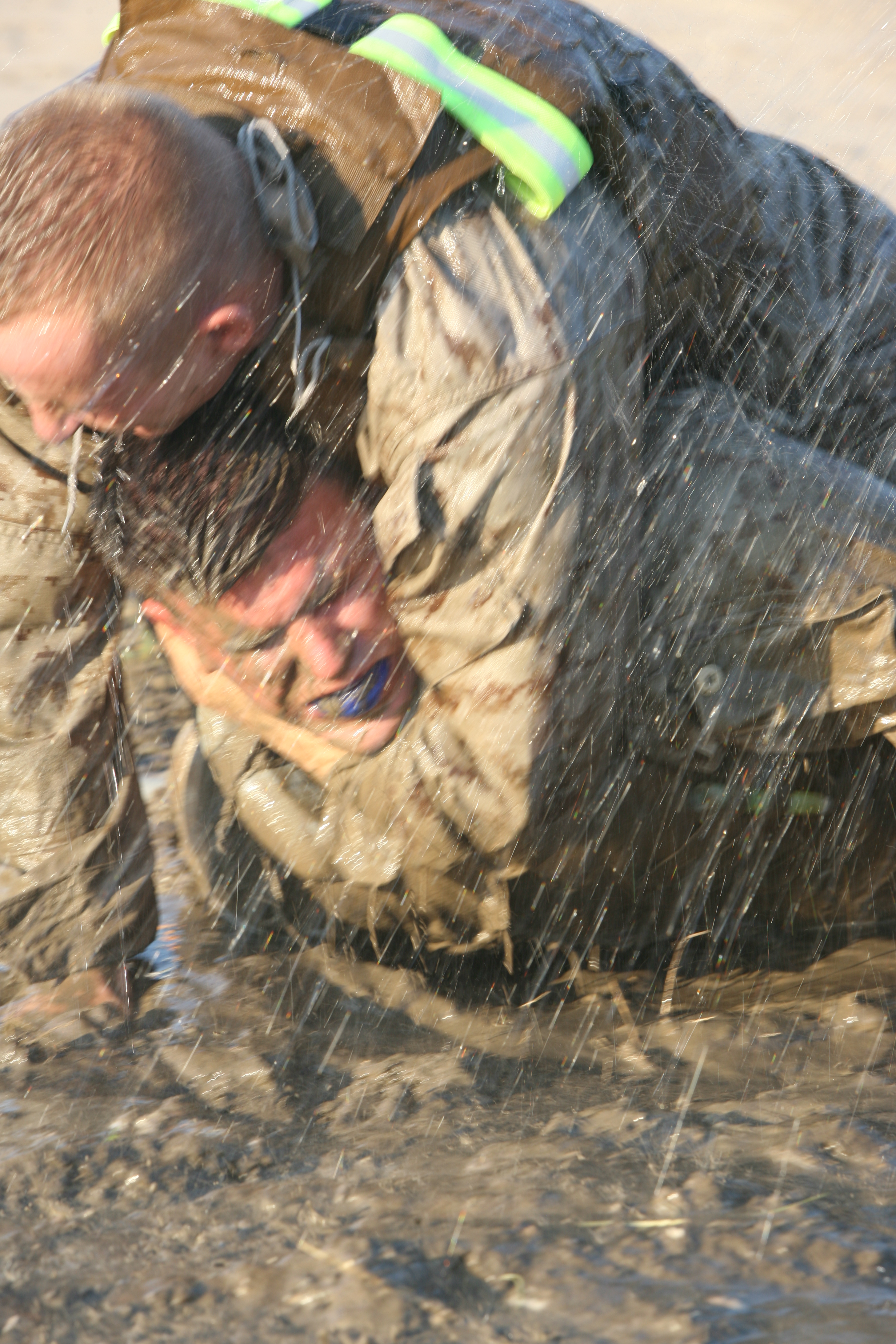 Cpl. Talon M. Stott, administrative clerk with the Marine Forces Reserve G-6, attempts to “tap out” Sgt. Chad W. Robins, a career planner with the Marine Individual Reserve Support Organization, Marine Forces Reserve, during a mud grappling bout at the final event of the Marine Corps Martial Arts Instructor Course here, Sept. 14, 2011. By fighting each other, the Marines get to practice the techniques they have learned, but also feel how it is to fight while being physically drained. The 15-day course prepared the Marines for the rigorous final event in which they endured eight hours of combat conditioning, ground fighting, and hiking more than six miles with a full combat load.